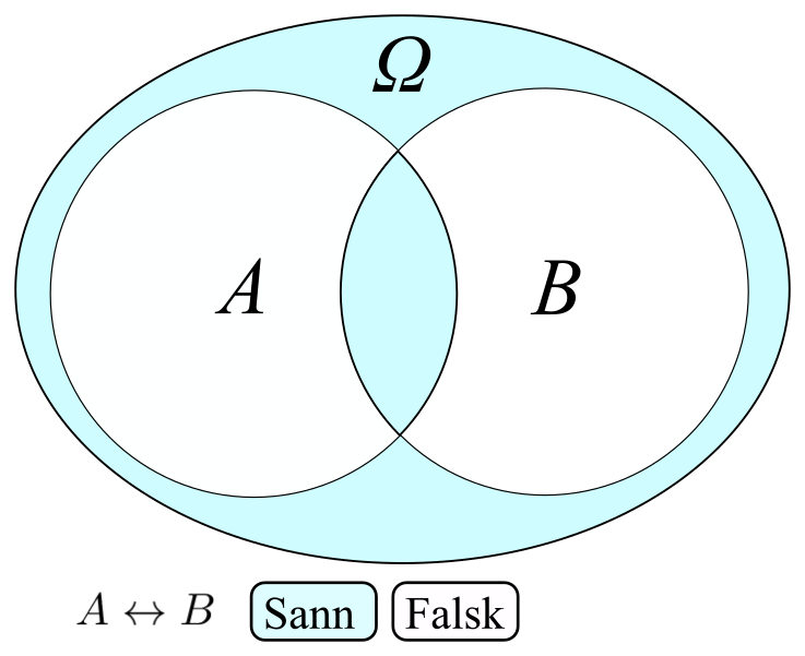 Material equivalence